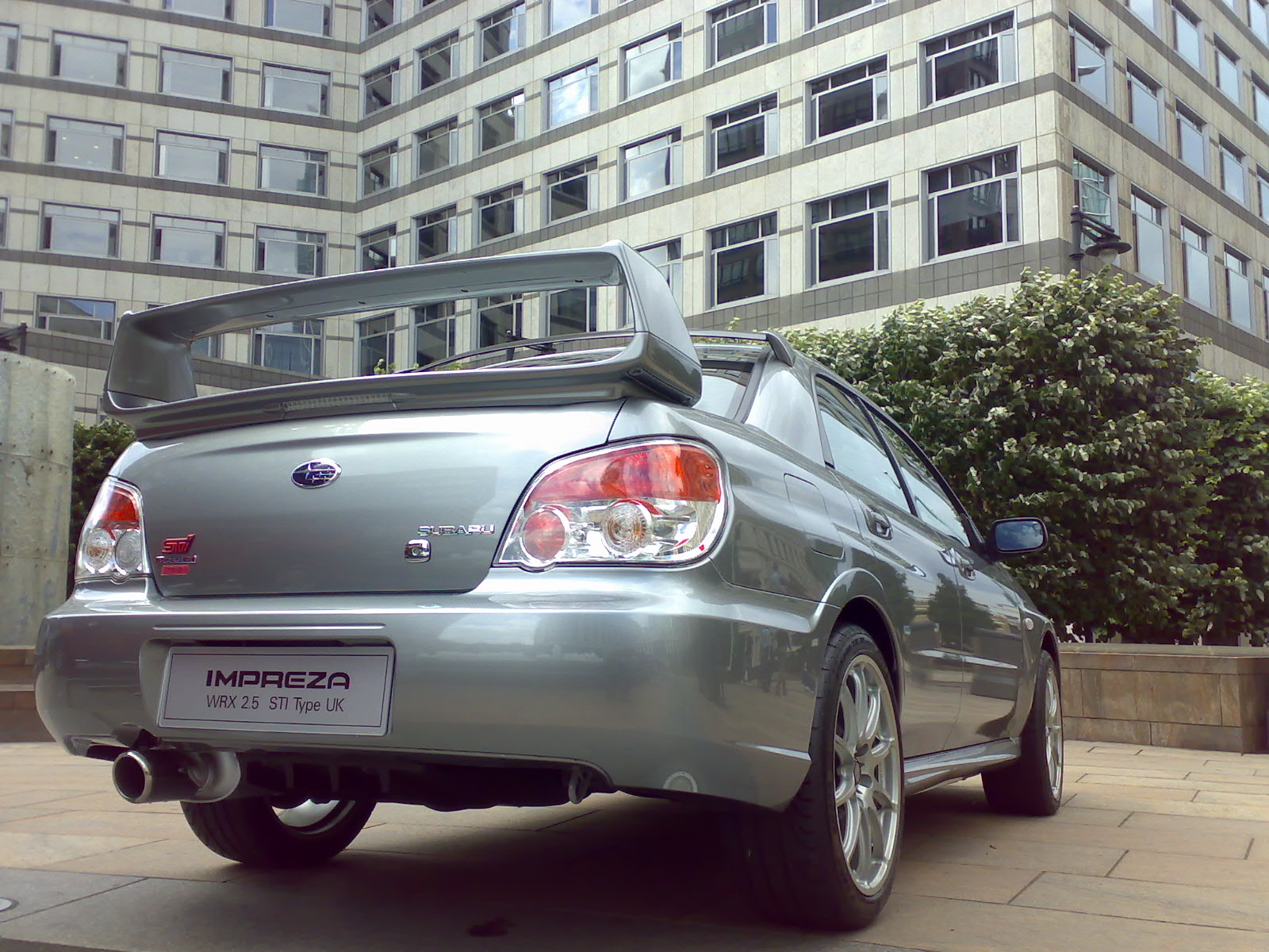 A 2007 Subaru Impreza WRX STI Mk II, UK version. Photo taken during the Canary Wharf motor expo in June 2007.